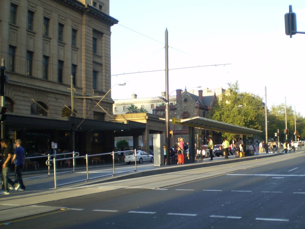 Taken by Norman Hackenberg at Adelaide Railway Station on 7/3/2008.